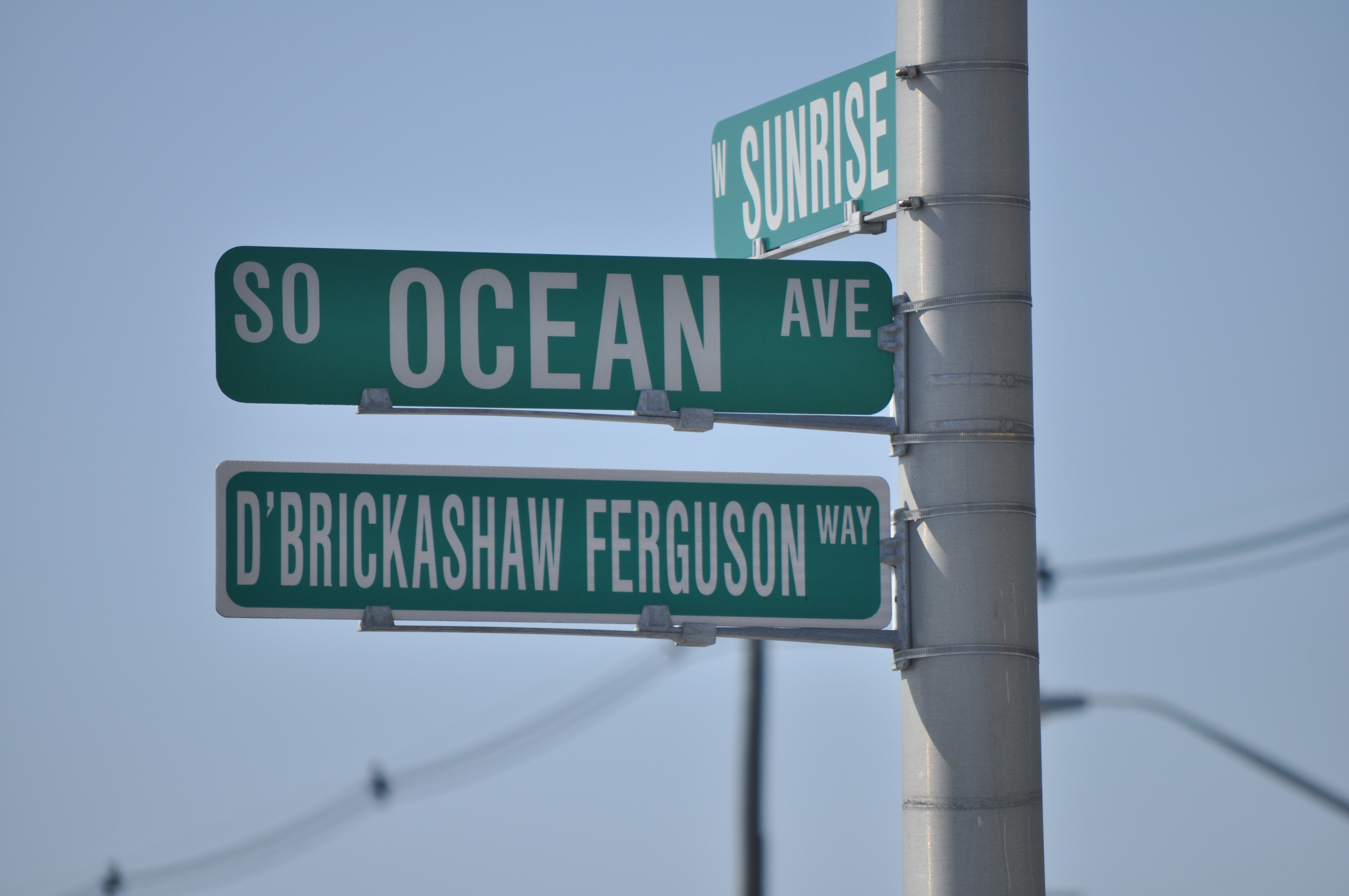 Sign at Sunrise Highway, Freeport, Long Island, New York for South Ocean Avenue, also known as D'Brickashaw Ferguson Way.